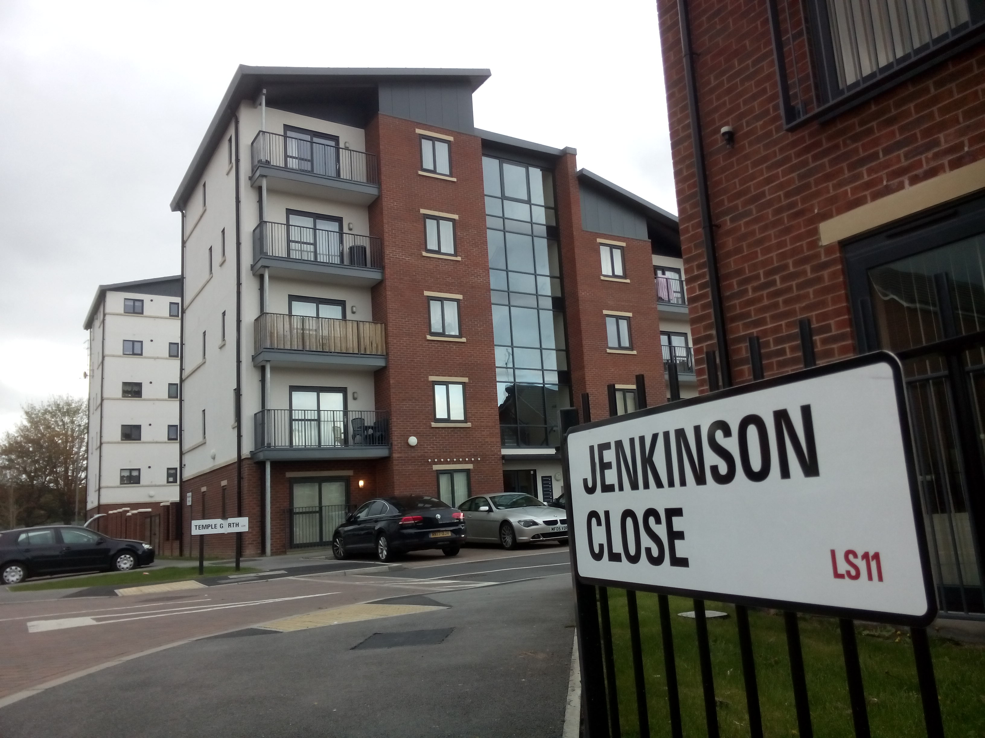 Street name for Jenkinson Close, Holbeck, Leeds, named for Charles Jenkinson (1887–1949). In the background is Gaitskell Towers, named for Hugh Gaitskell (1906-1963), social housing completed in 2016 under a private finance initiative contract between Leeds City Council and the private company Keepmoat.